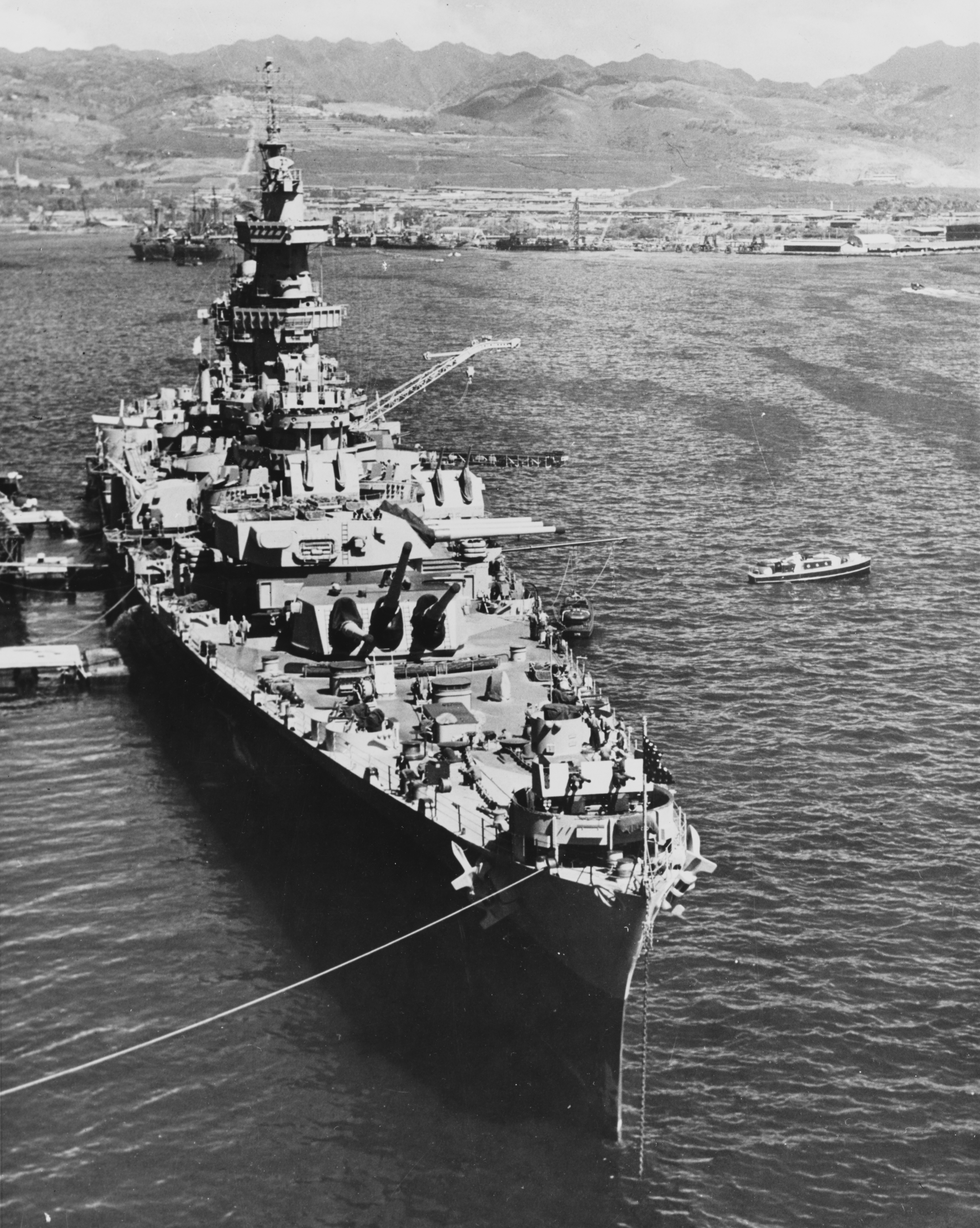 USS Guam (CB-2) moored at Pearl Harbor on 21 February 1945. The port catapult and aircraft crane are trained over the side.